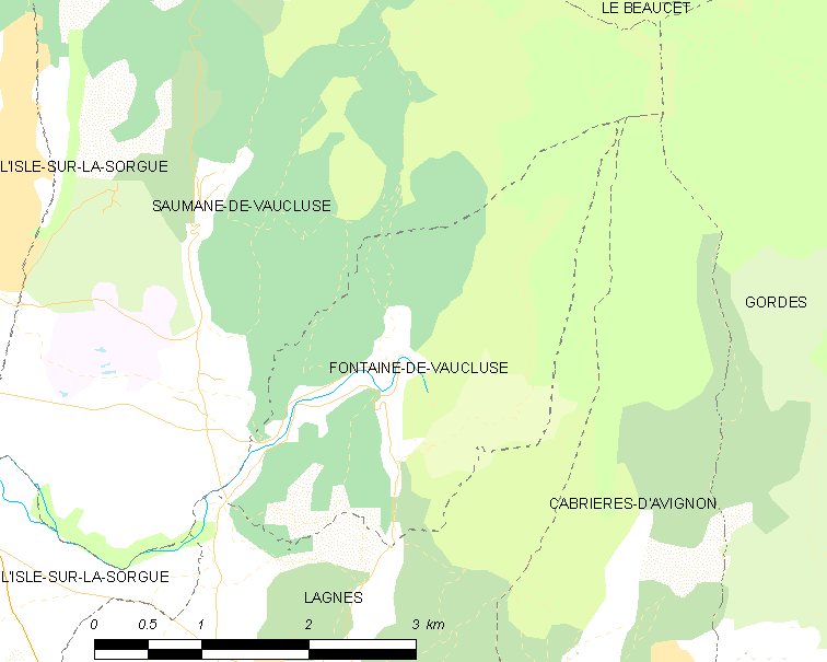 Map of French municipality Fontaine-de-Vaucluse